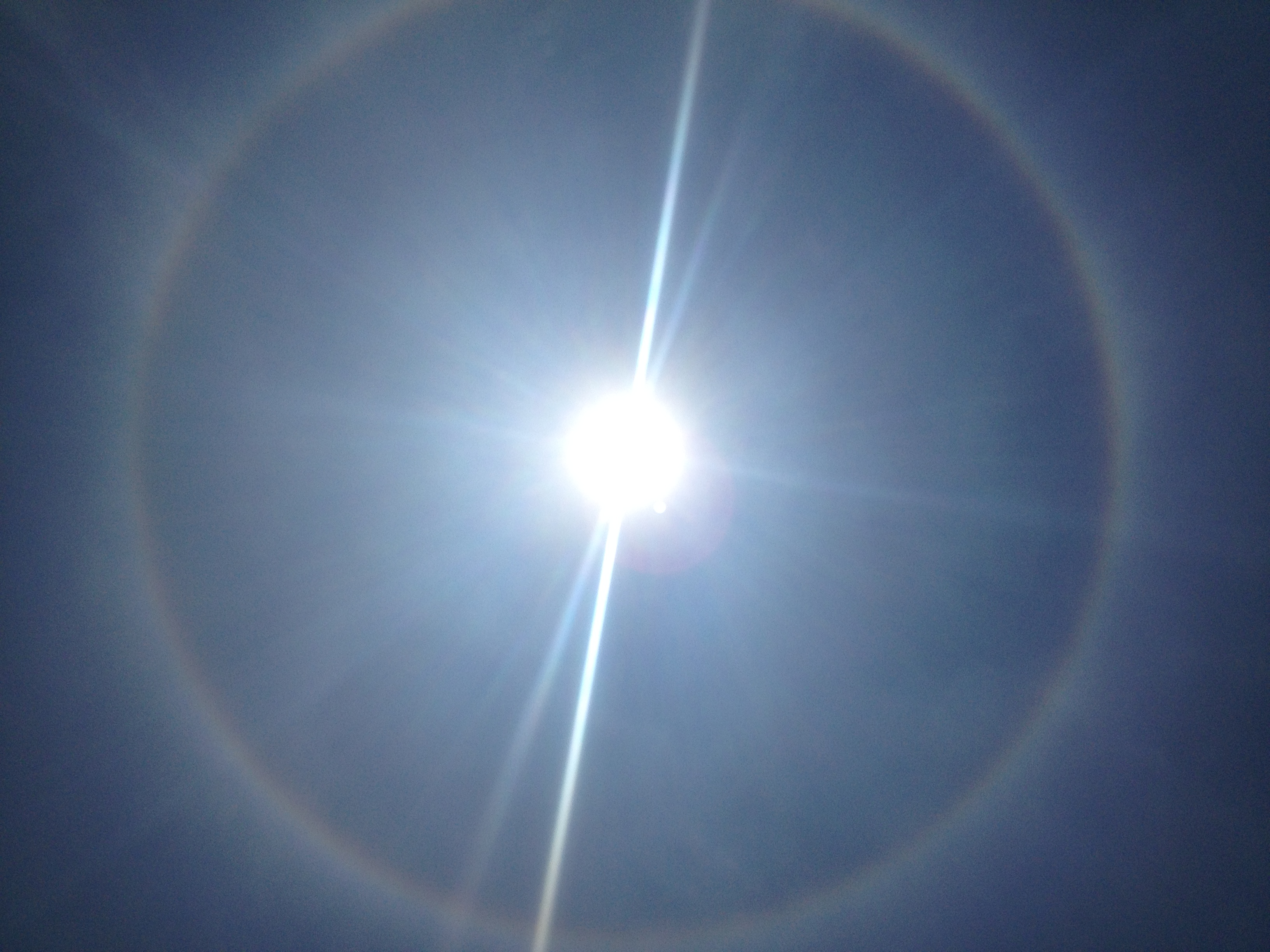 One HALO in Lima, Peru.